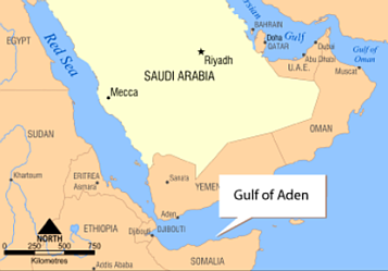 Map of Gulf of Aden